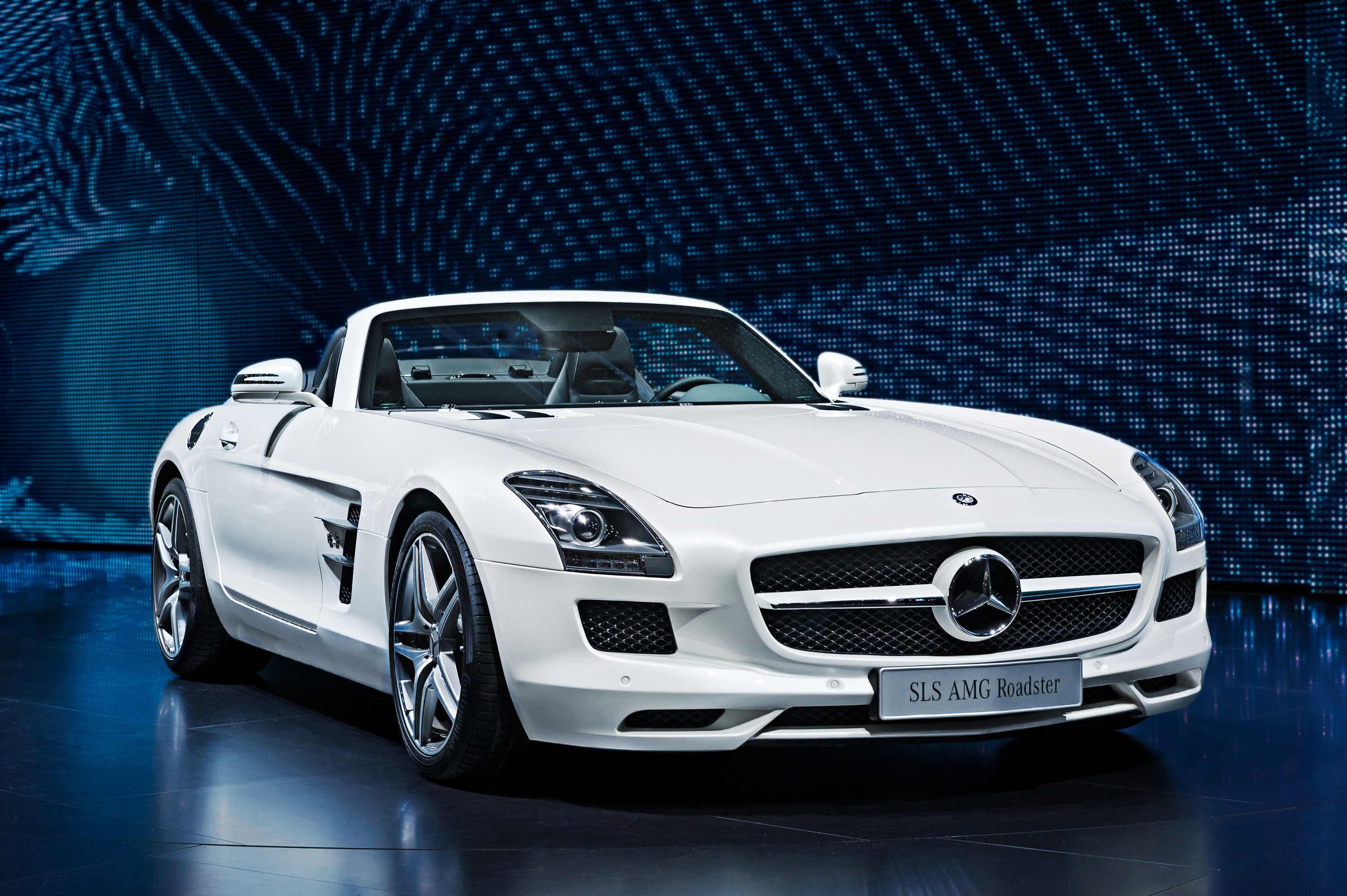 2011 Mercedes-Benz SLS AMG Roadster at the 2011 Frankfurt Motor Show.